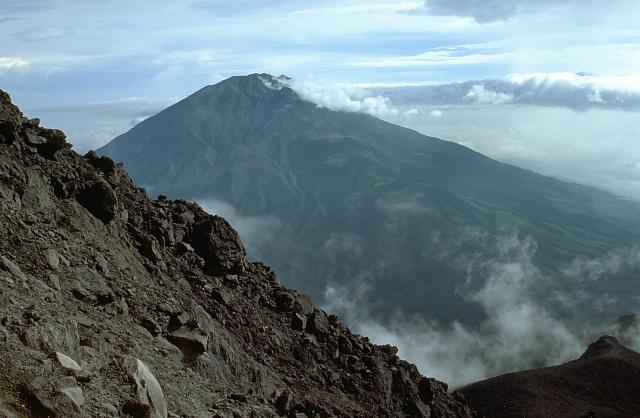 Gunung Merbabu, seen here from the south near the summit of Merapi volcano.